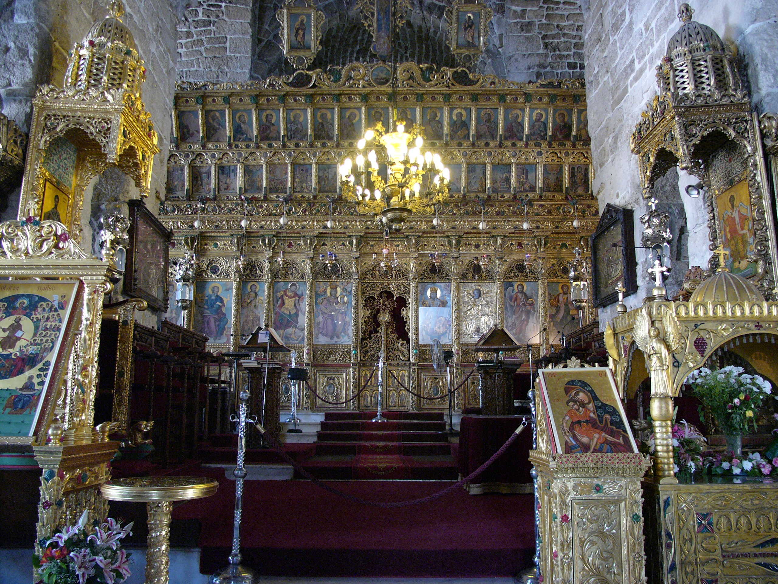 Interior of Lazarus Church, Larnaca on Cyprus